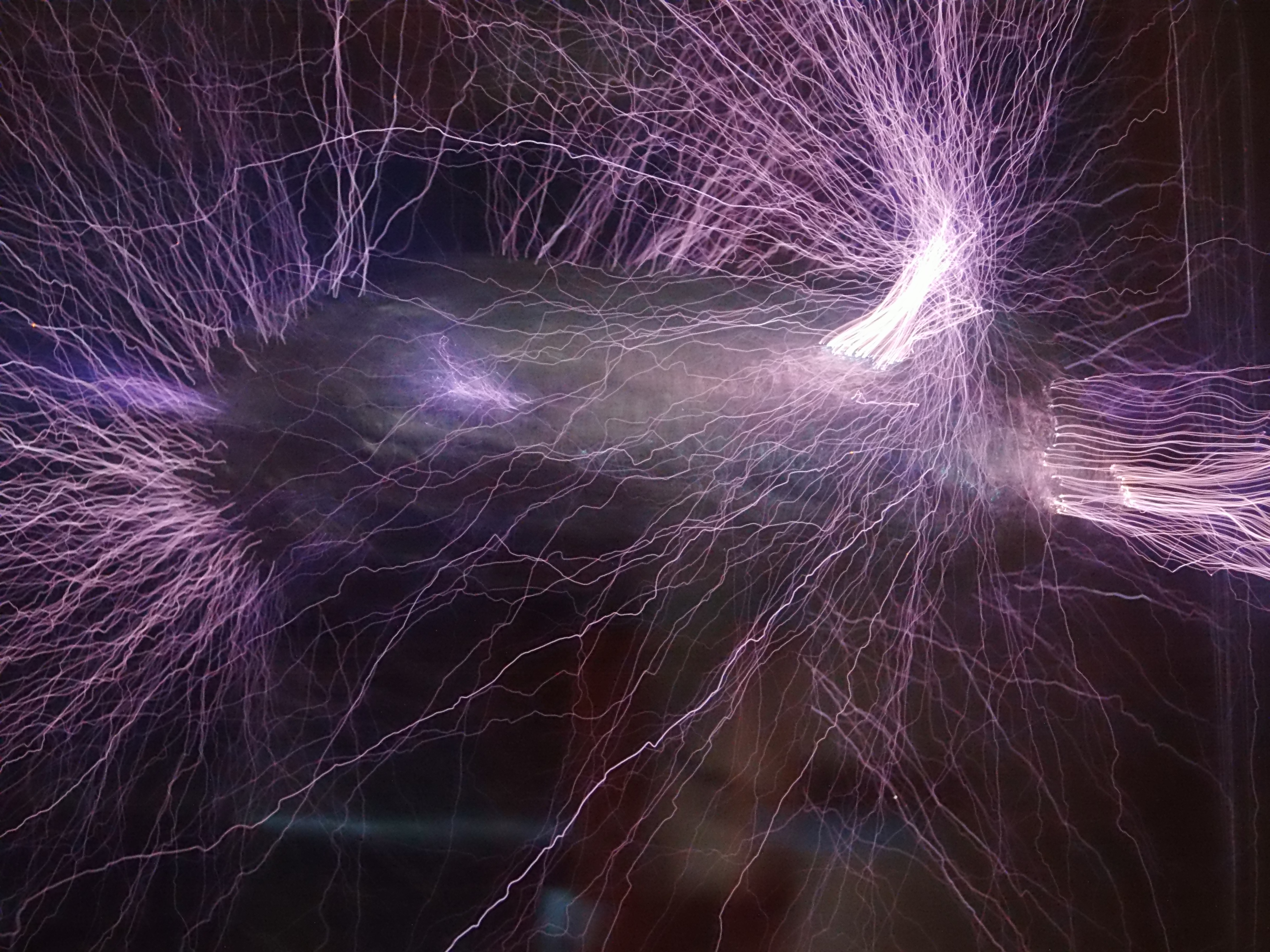 Tesla coil in terárium (II)